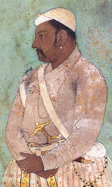 Sur Singh of Marwar